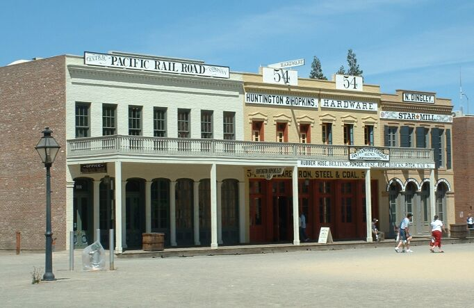 Buildings in Old Sacramento, the historic district of Sacramento, California.